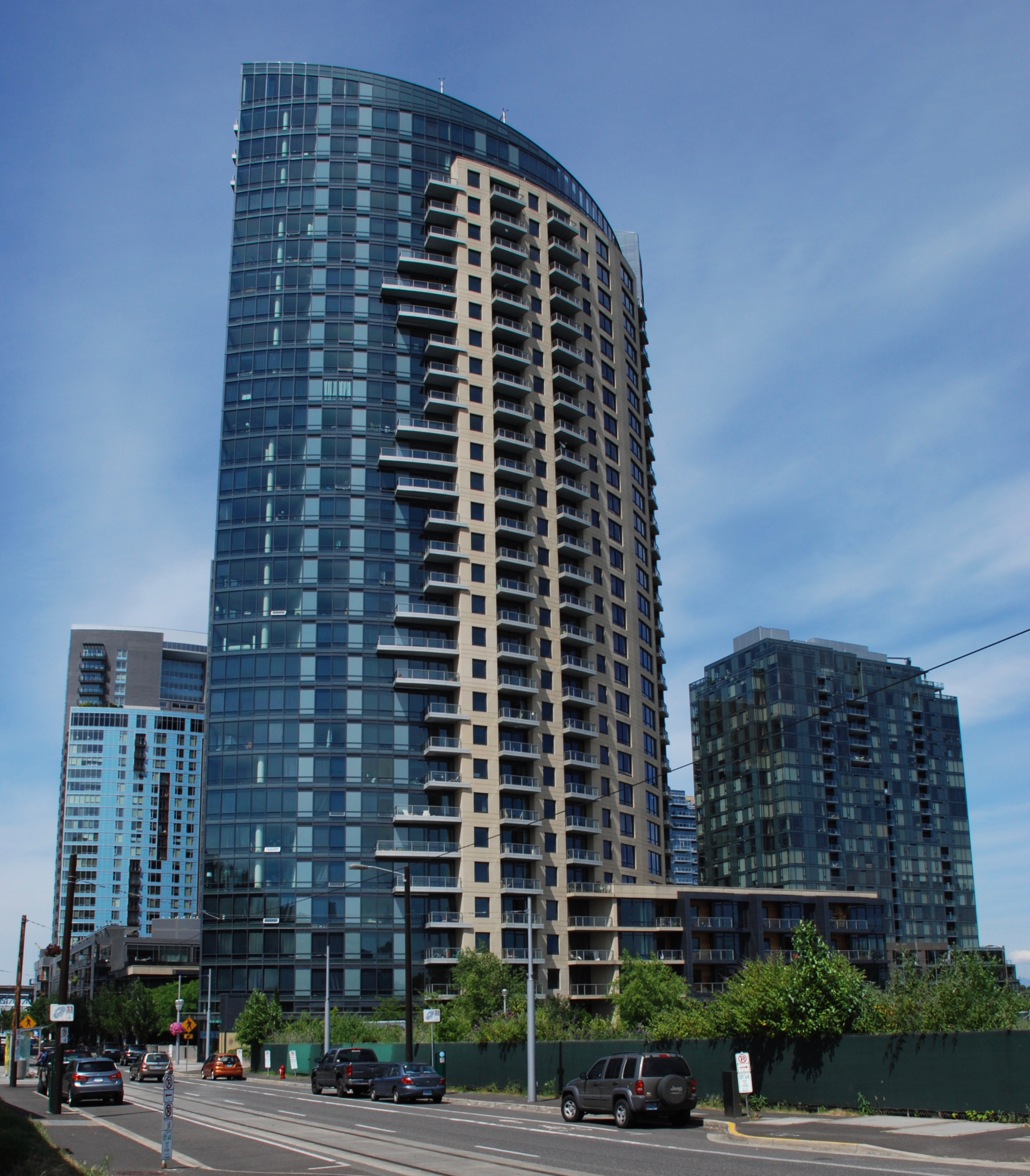 The Ardea apartments in the South Waterfront district of Portland, Oregon. Also visible are the Mirabella (tower, at left) and Atwater Place (at right).